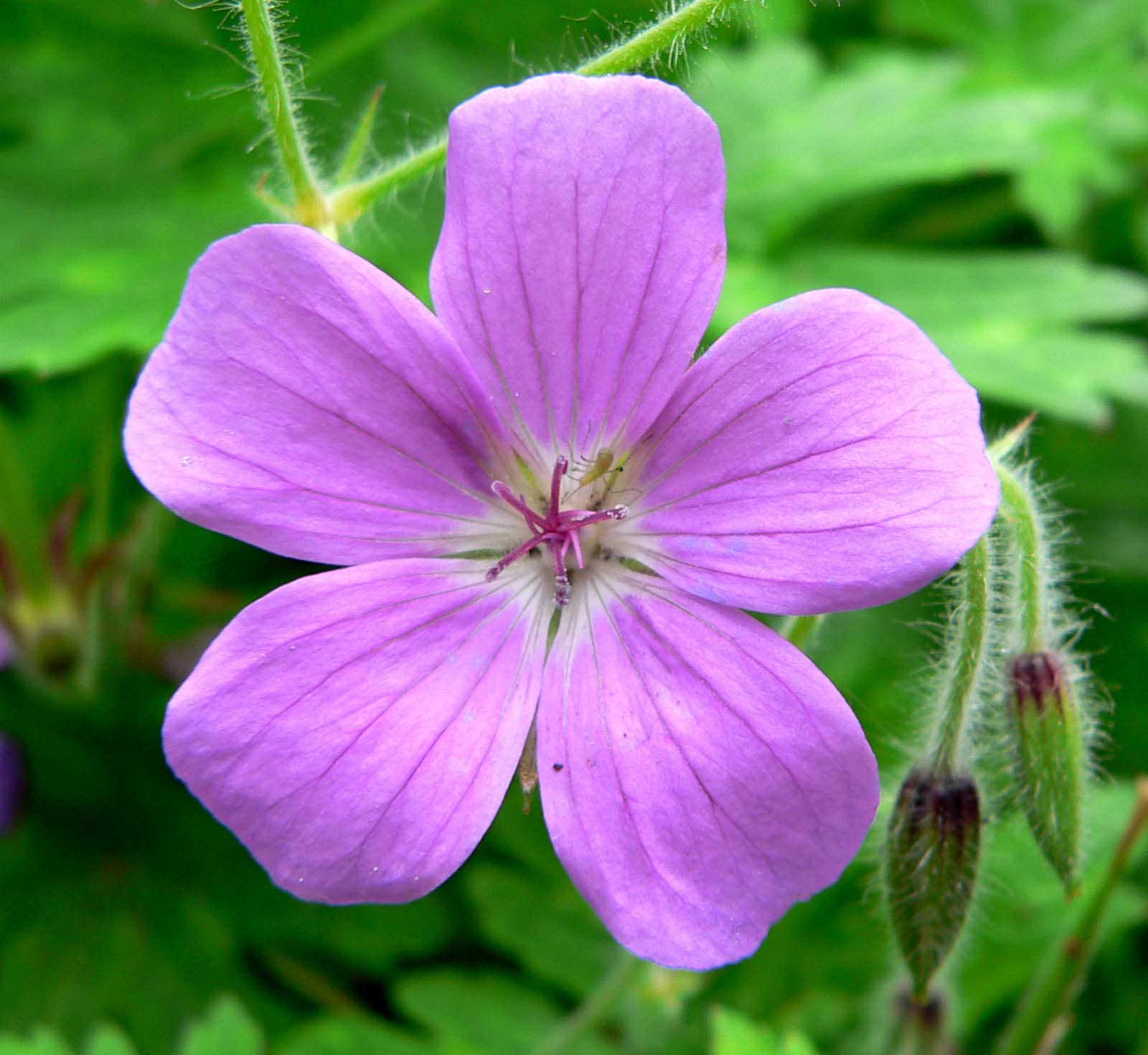 Photo of Geranium swatense at the UBC Botanical Garden in Vancouver